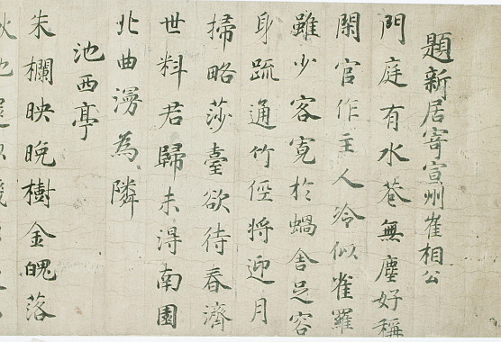 Poetic Anthology of Bo Juyi (三体白氏詩巻, Santai Hakushi shikan). Collection of poems by the Chinese poet Bo Juyi. Part of one scroll, ink on paper. 30.6cm x 239.6cm. Located at the Masaki Art Museum (正木美術館?), Tadaoka, Osaka, Japan.